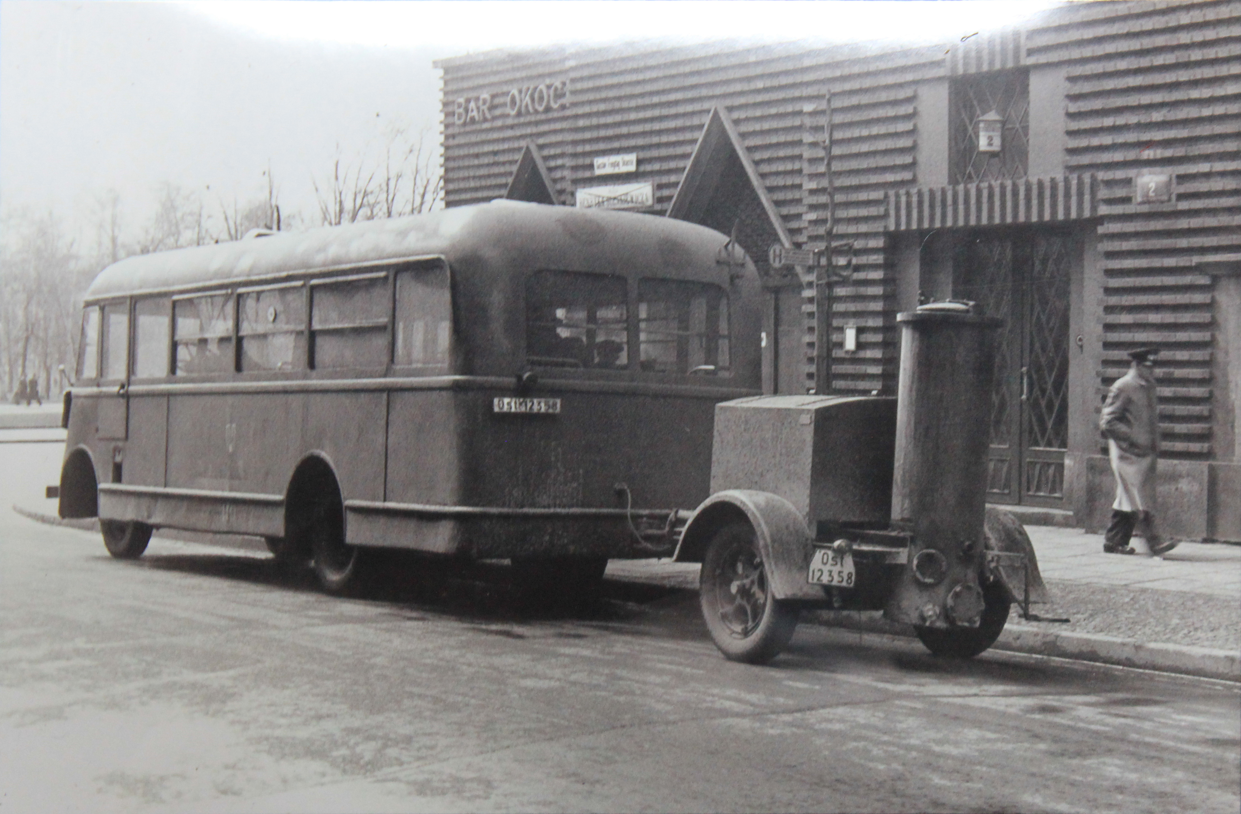 Gdańsk - Museum of the Second World War - bus running on wood gas in occupied Kraków (1943)